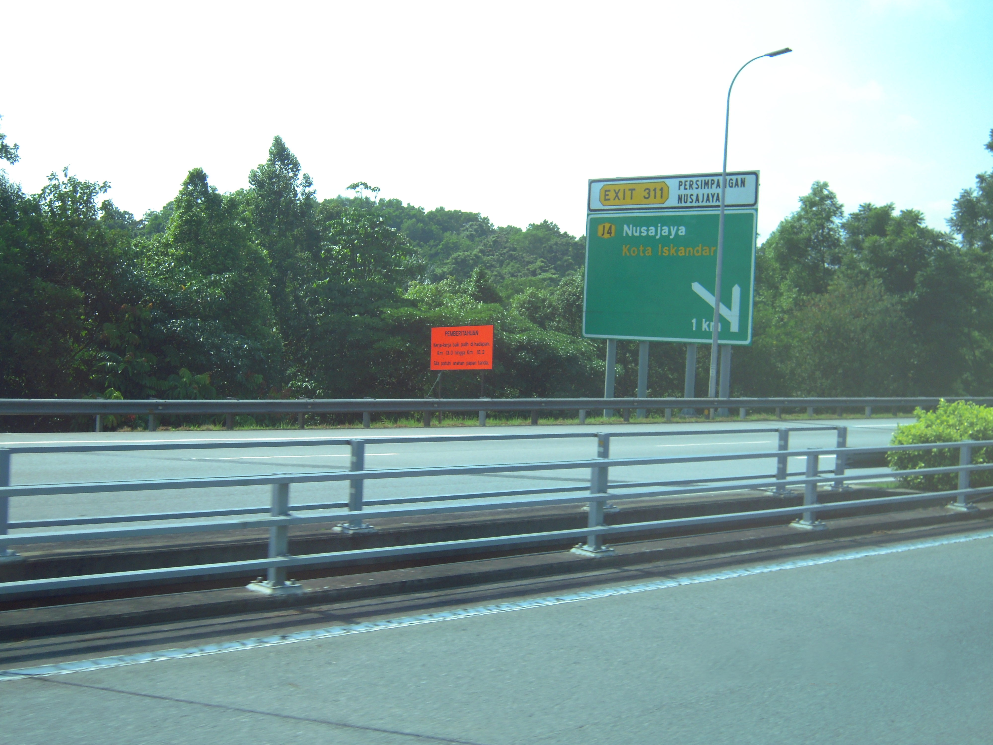 North–South Expressway in Malaysia